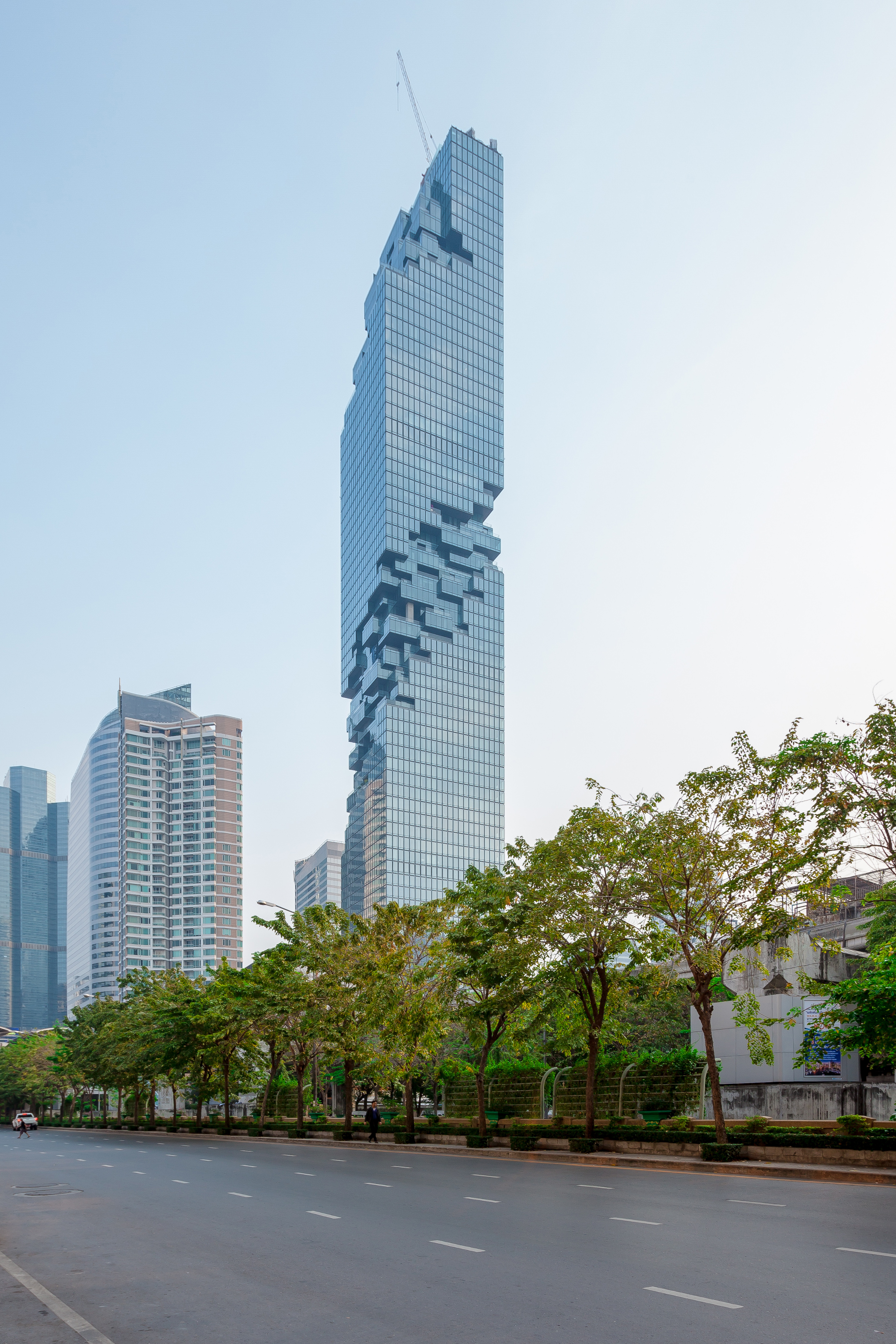 Maha Nakhon tower, designed by German architect Ole Scheeren.